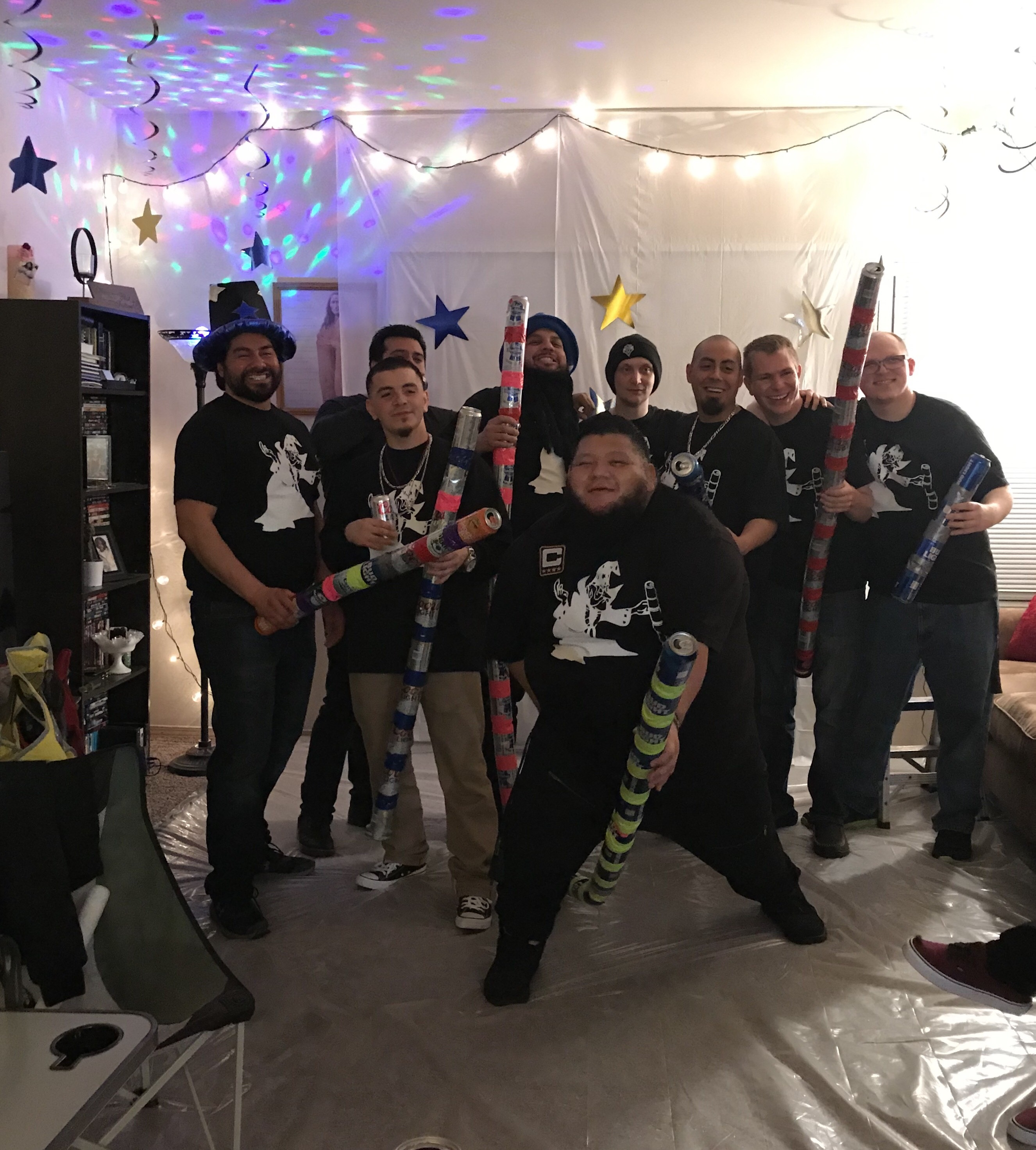 4th annual wizard staff 2019